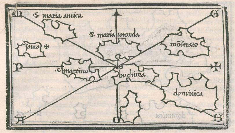 Map of Lesser Antilles, between Santa Cruz and Dominica; contained in Benedetto Bordone's book Isolario, 1534 edition